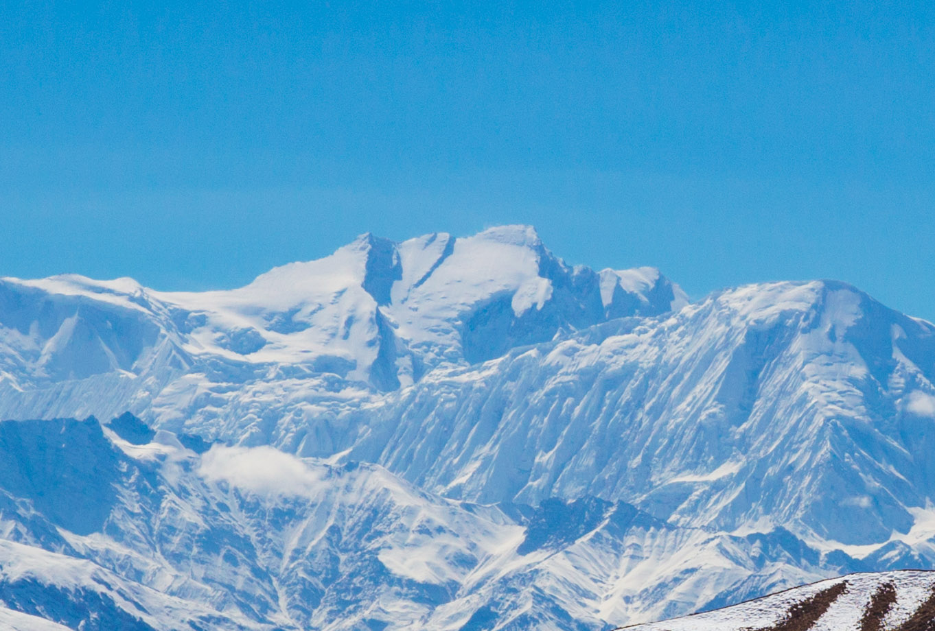 Cropped version of image described below. Showing Annapurna I with Herzog's "Sickle" shown dead centre. Tilicho peak to the right with its shoulder cutting off the view of the lower parts of Annapurna. Photograph taken from about 65 km (40 miles) north. On the way down to Ghar Gompa, right after Marang La, incredible view on the Annapurna range. The highest peak is Annapurna I (8 091 m), then to its right Tilicho (7 134 m) and Nilgiri North (7 061 m).